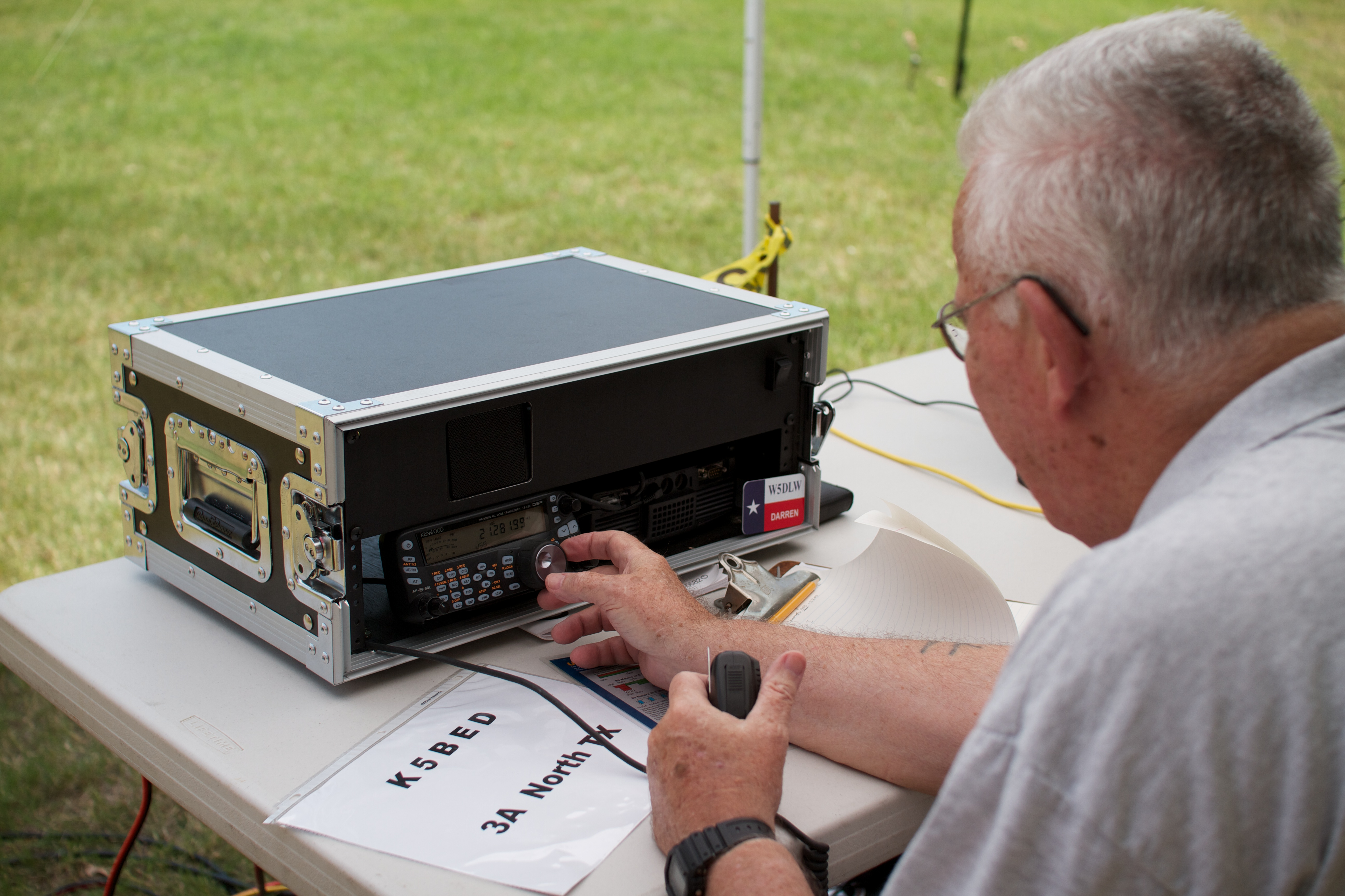 Bedford Amateur Radio Club, ARRL Field Day 2012.